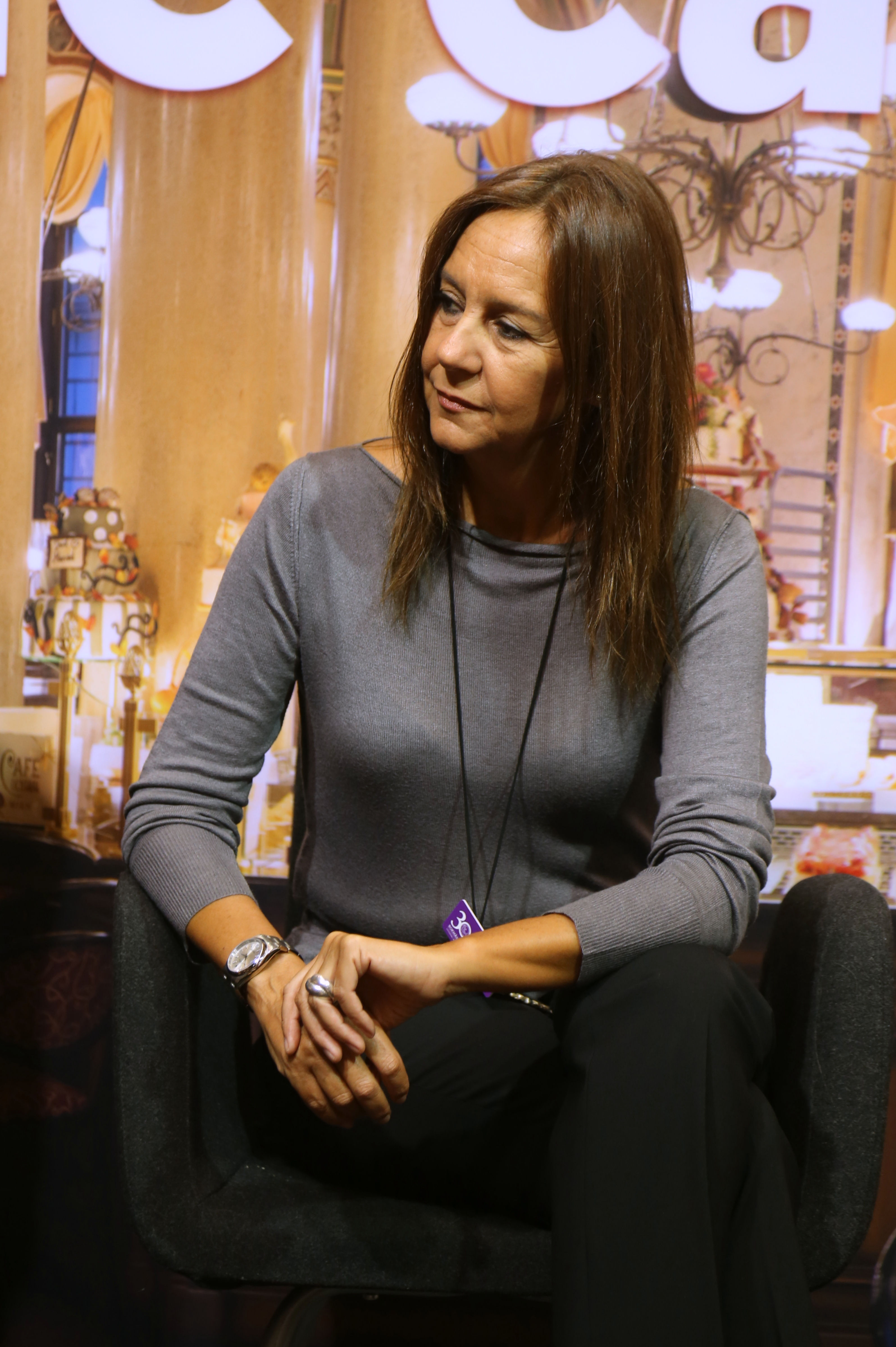 Maria Dueñas at his talk with Nuno Júdice at the Gothenburg book fair 2014.